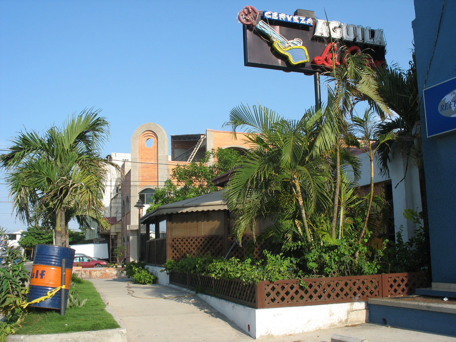 Barranquilla La Cueva